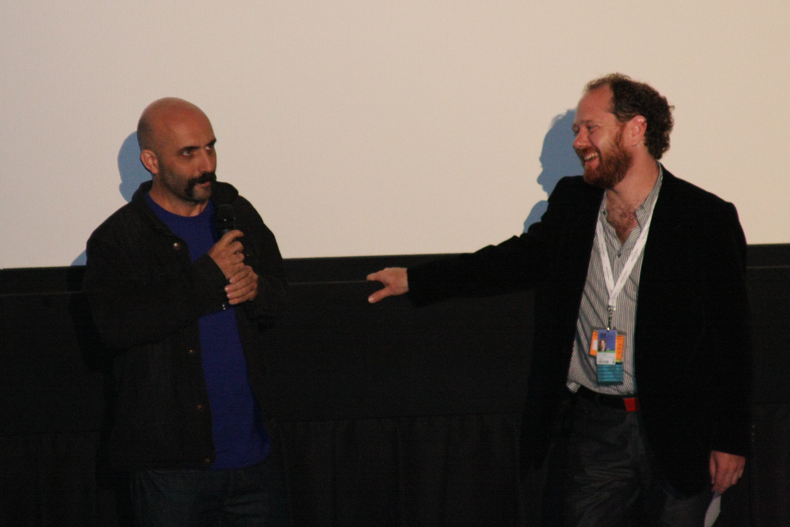 Programmer Colin Geddes (right) heaps praises on director Gaspar Noé.